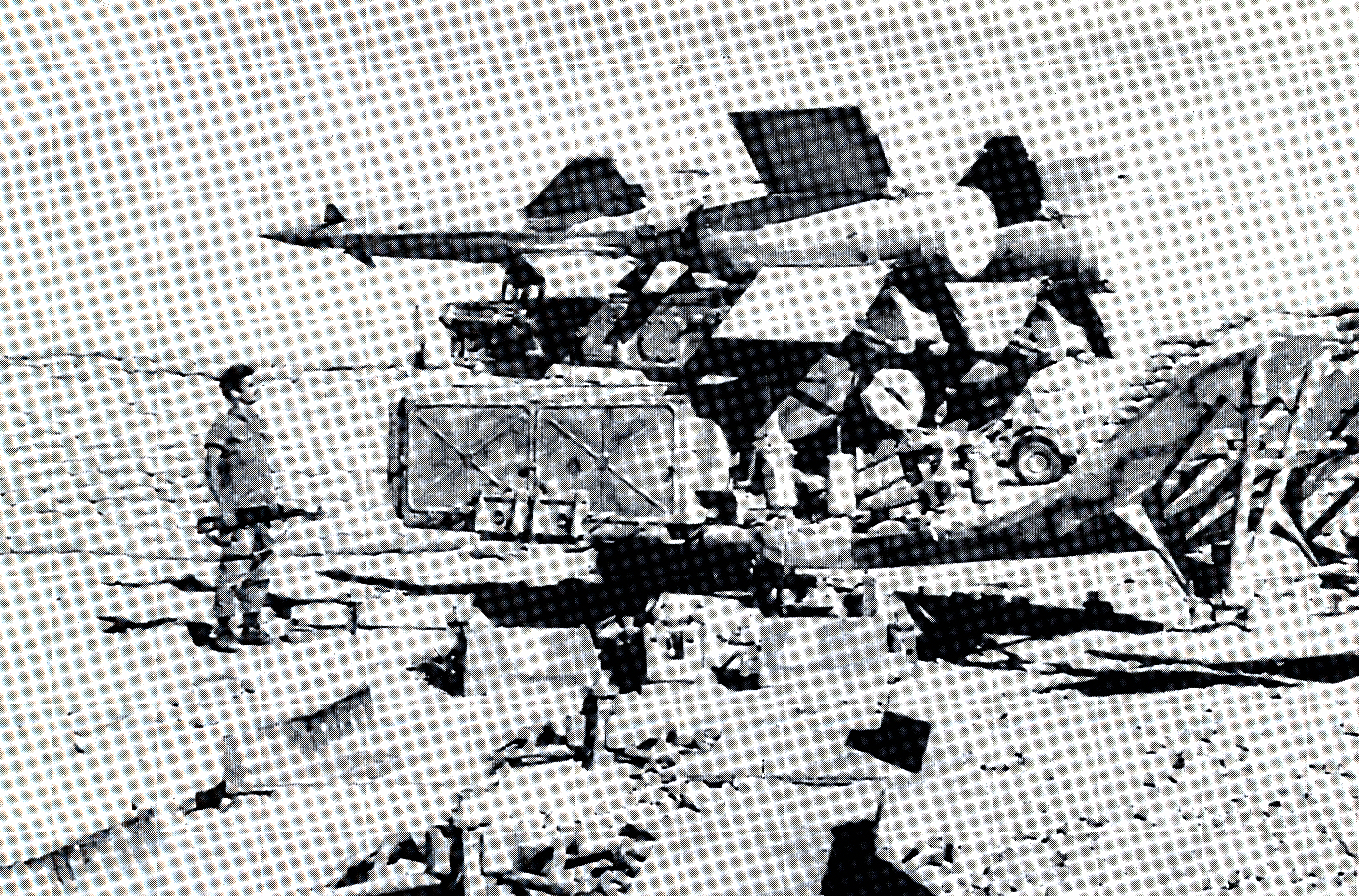 Egyptian missile site captured by Israelis during the Arab-Israeli War. From the booklet "President Nixon and the Role of Intelligence in the 1973 Arab-Israeli War." For more information, visit